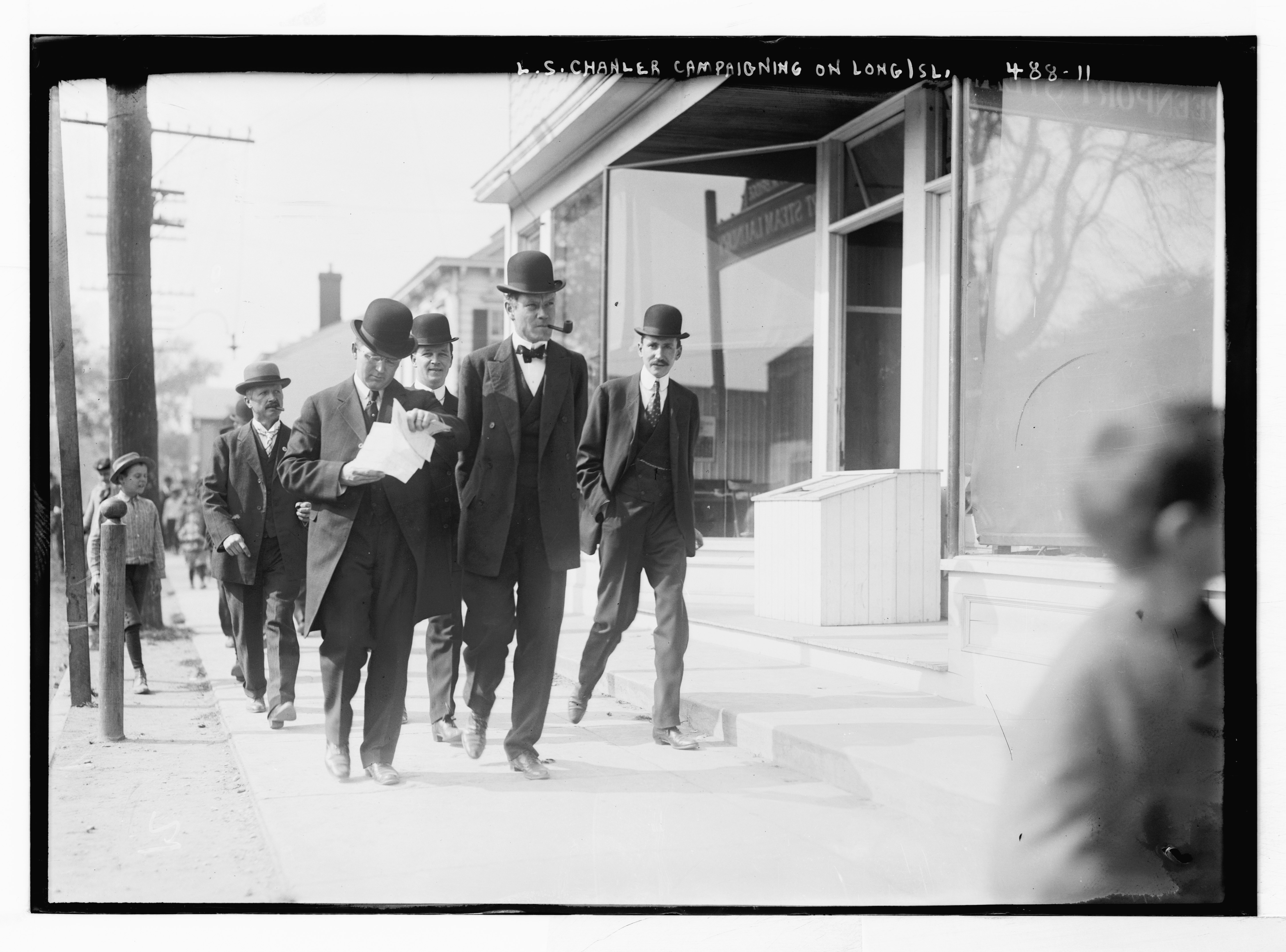 Title: L.S. Chanler campaigning on Long Isl. [Greenport] Abstract/medium: 1 negative : glass ; 5 x 7 in. or smaller.